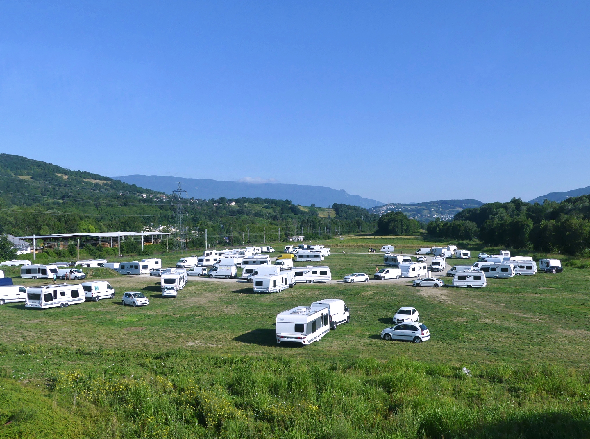 Sight, in the morning, of the caravan travellers parking of La Ravoire in the south of Chambéry, in Savoie, France.